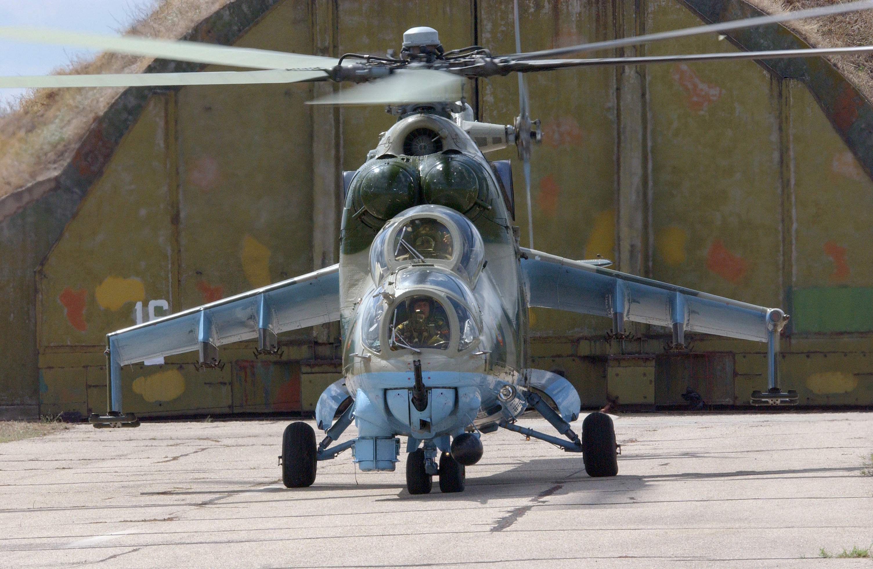 A Russian designed MI-24 HIND helicopter from the Republic of Macedonia, starts engines at the start of training operations in support of exercise Cooperative Key 2003 at Graff Ignatievo Air Base (AB), Bulgaria (BGR). Camera Operator: TSGT JOHN M. FOSTER, USAF Date Shot: 4 Sep 2003 From Original, Current